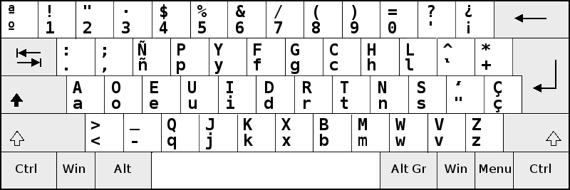 Spanish Dvorak Keyborad